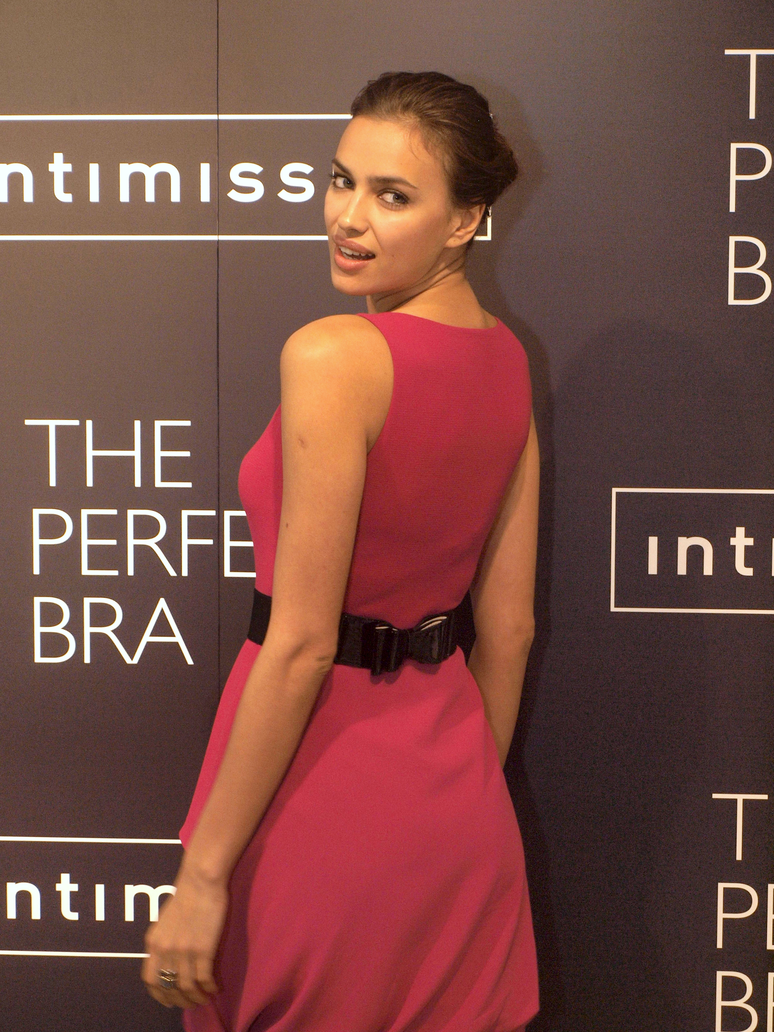 Irina Shayk in Lisbon, April 20, 2012